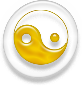 Symbol of Taoism, white and golden version.